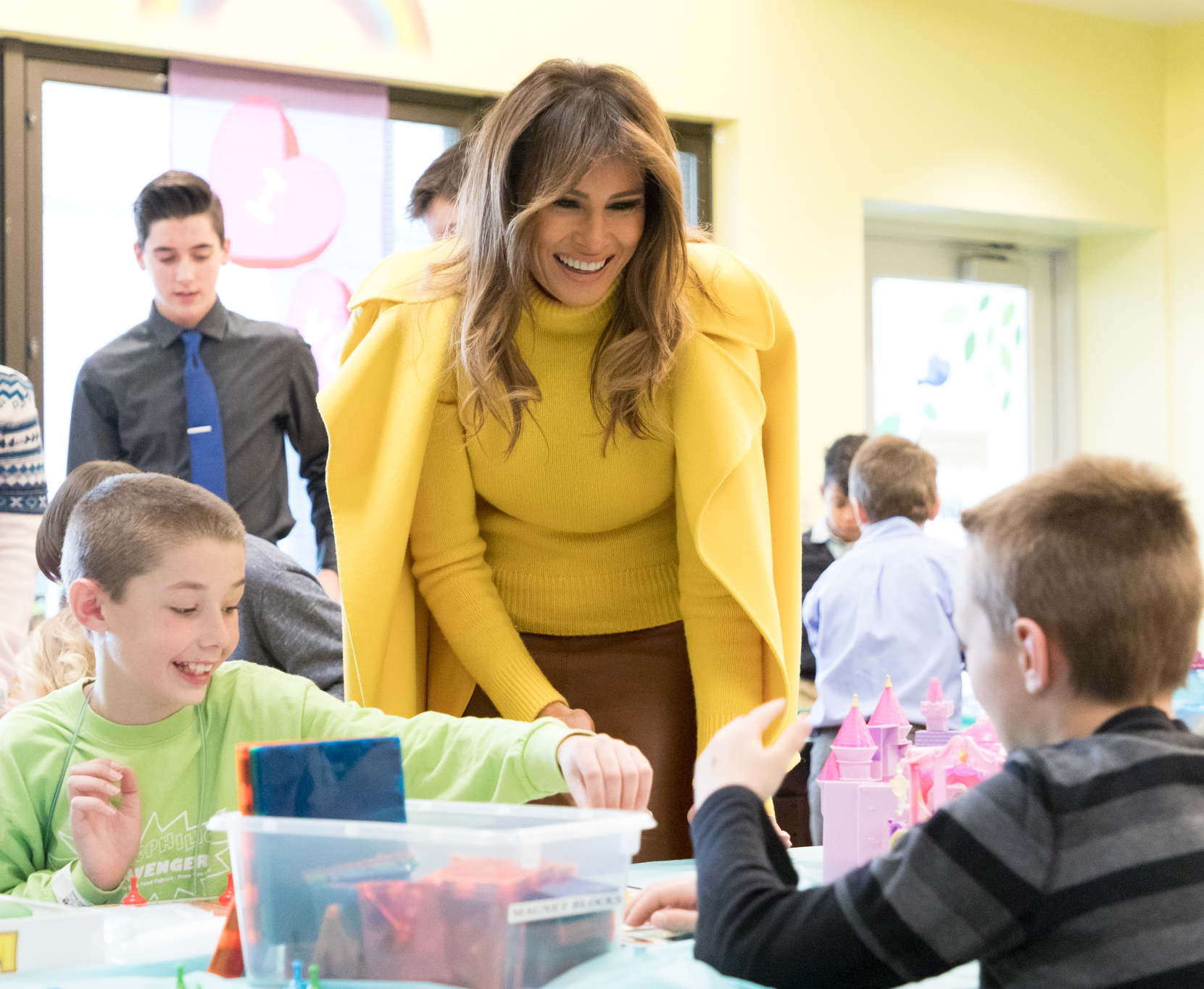 First Lady Melania Trump at Cincinnati Children’s Hospital | February 5, 2018 (Official White House Photo by Andrea Hanks)